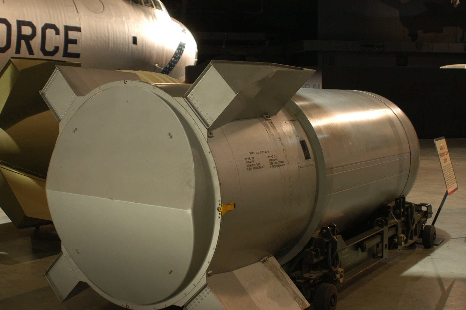 Mark 53 Thermonuclear bomb rear view.